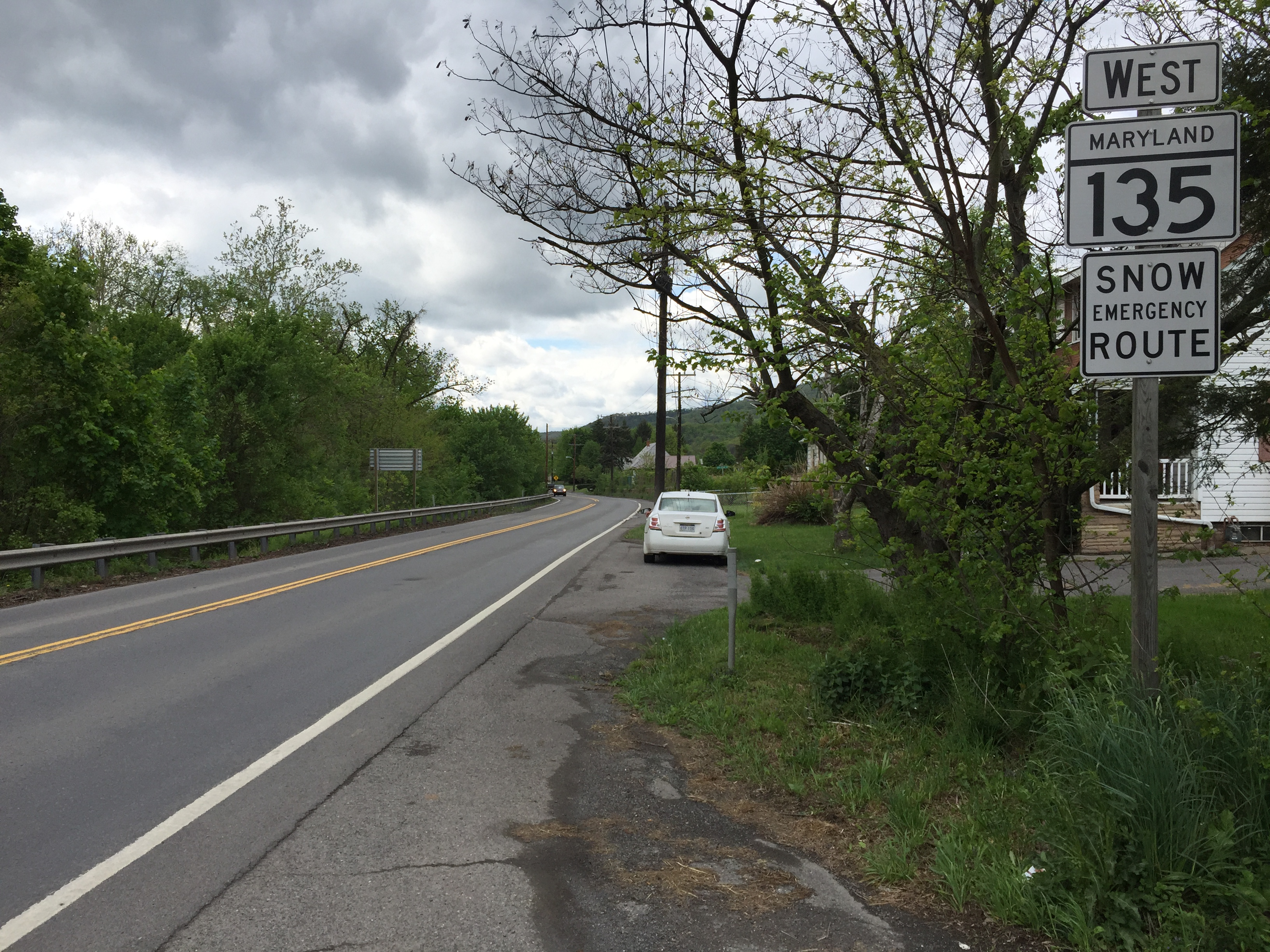 View west along Maryland State Route 135 (Queens Point Road) in McCoole, Allegany County, Maryland